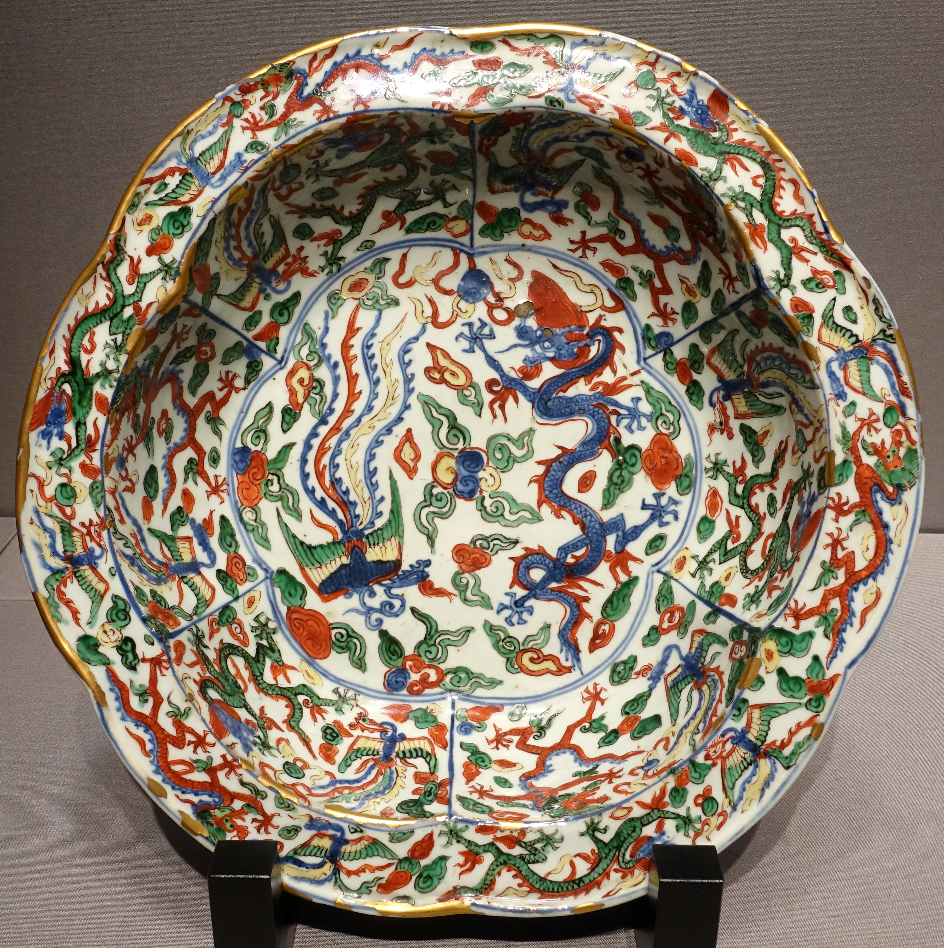 Exhibit in the Tokyo National Museum - Tokyo, Japan.